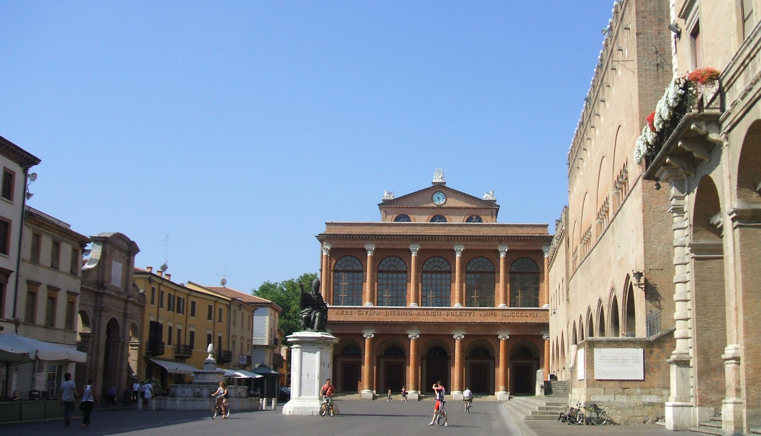 Cavour Square in Rimini